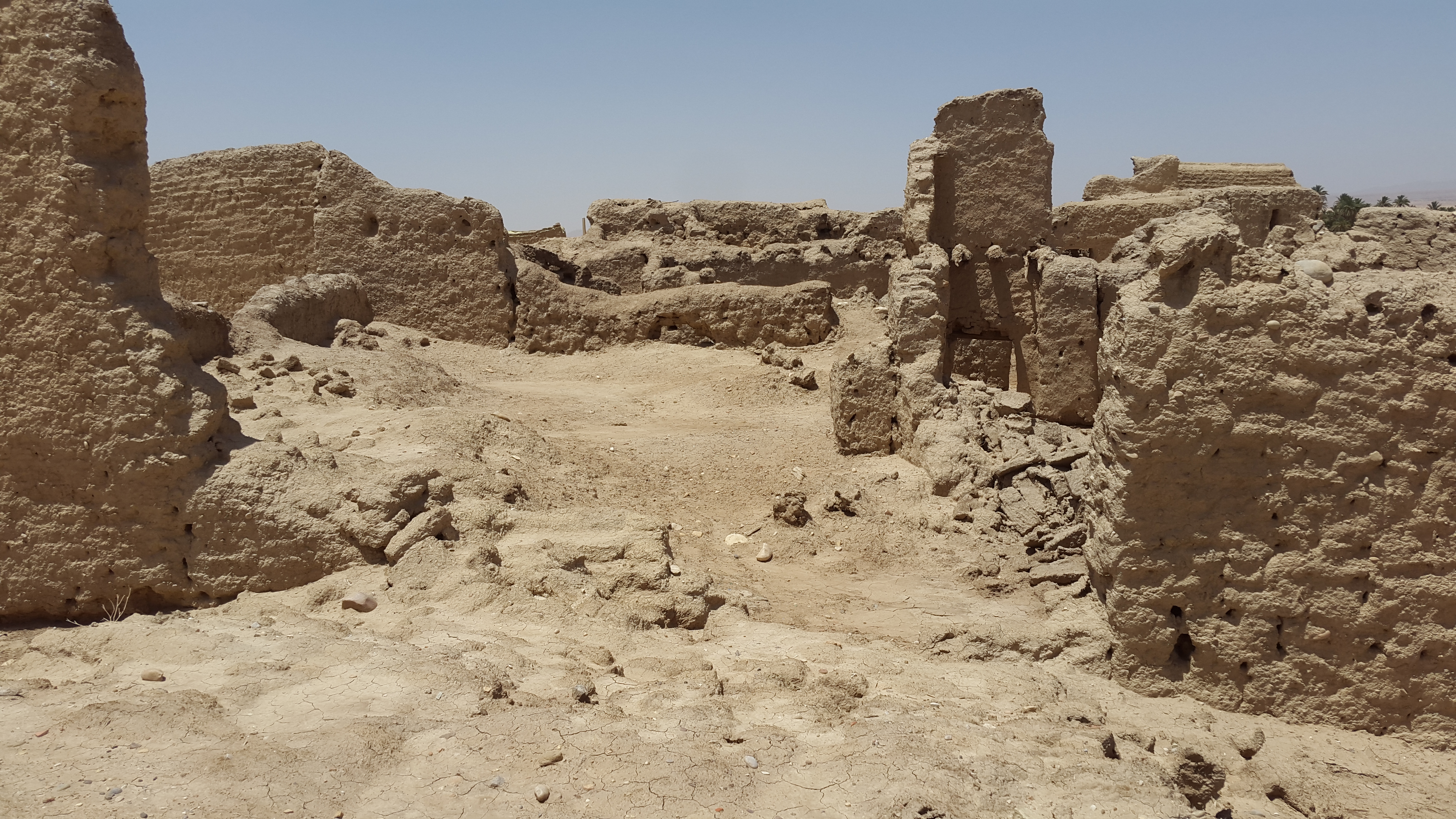 Thouda was a Roman–Berber colonia in the province of Mauretania Caesariensis. A key town in the Roman, Byzantine and Vandal empires, it is identifiable with the stone ruins at the oasis adjacent to the village of Sidi Okba, Algeria. In 683 AD, the city was taken by Muslim forces under Uqba ibn Nafi.